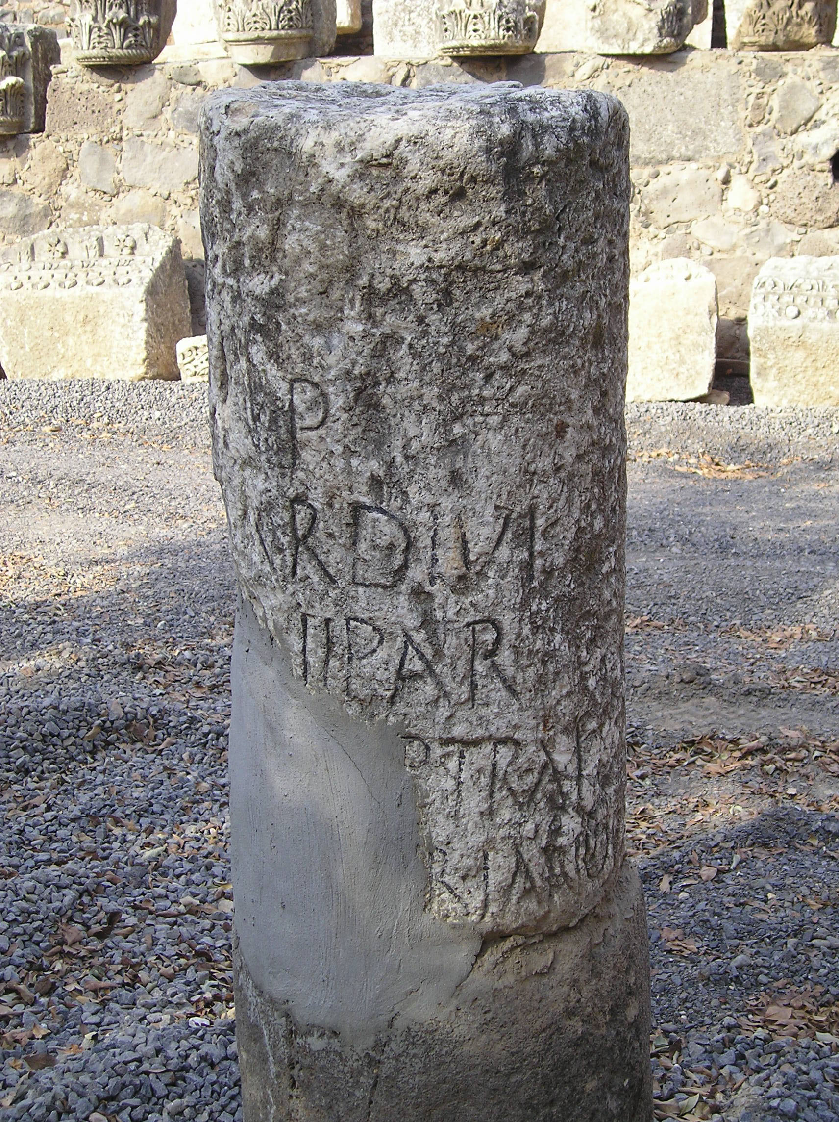 A milestone found near Capernaum.